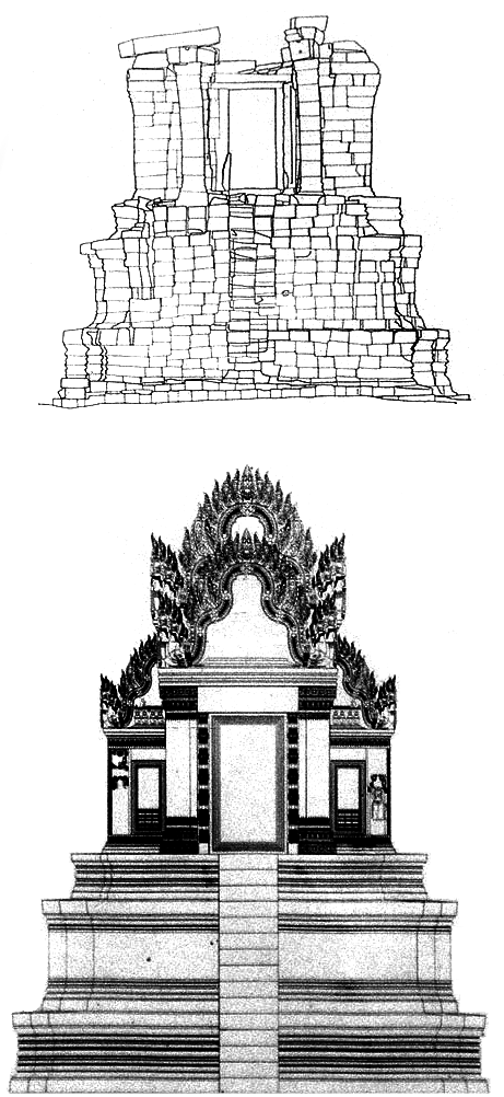 Information about the ongoing restaurations at a little exhibition at the Bayon in Angkor by the Japanese Government Team for Safeguarding Angkor (JSA). Depicted are the state of the West Elevation (western library) before restauration and its original contruction.